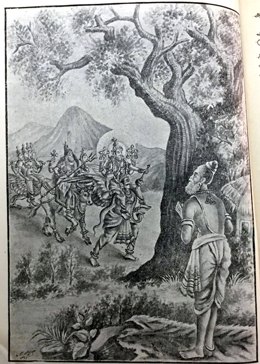 THESE ARE FROM A 100 YEAR OLD BOOK.